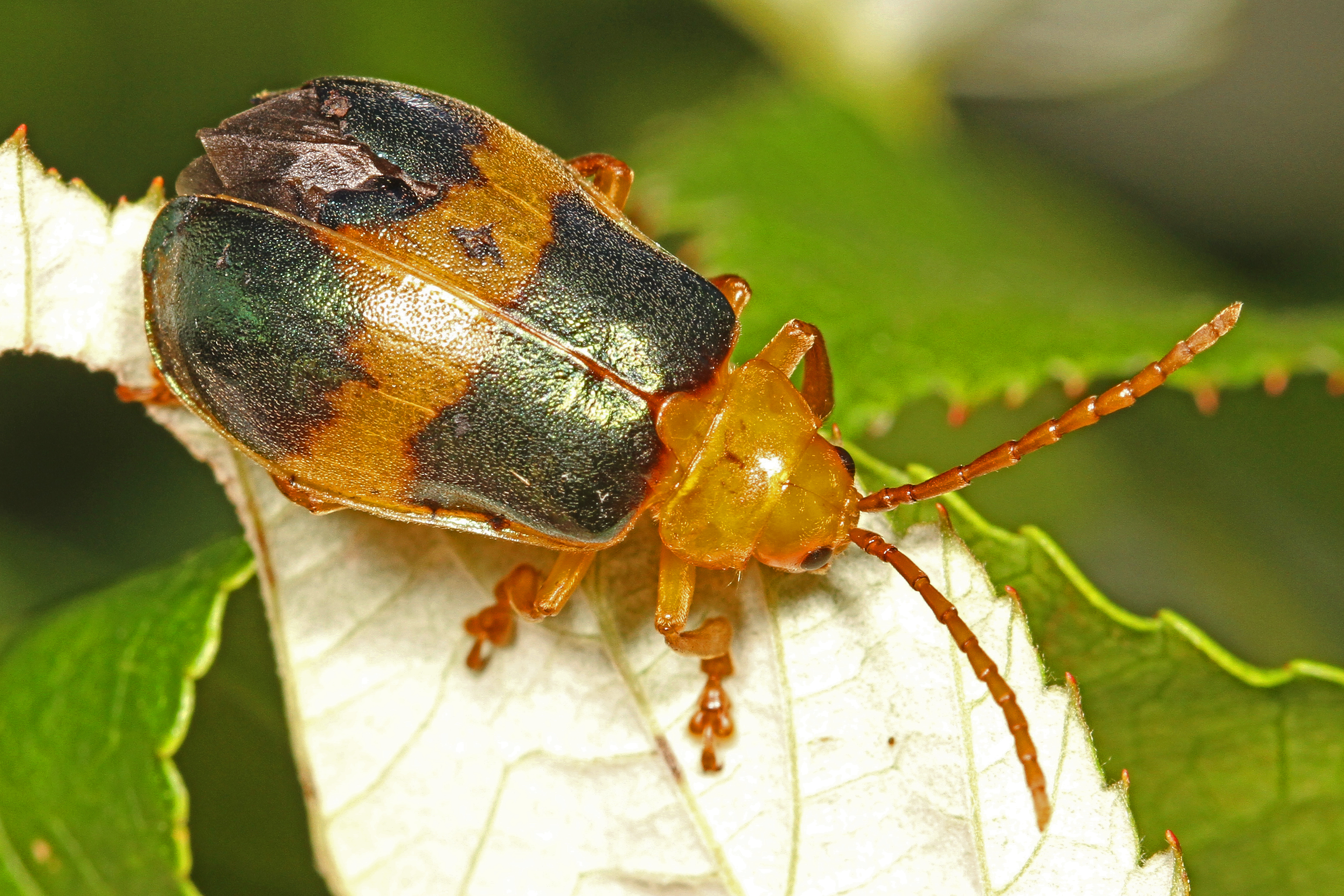 Larger Elm Leaf Beetle - Monocesta coryli, Thoroughfare Gap, Shenandoah National Park, Virginia.